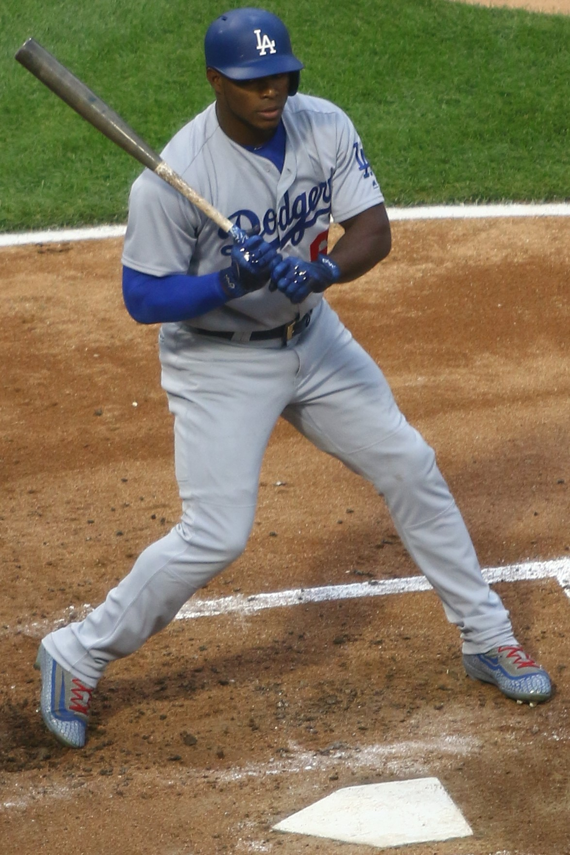 Yasiel Puig for the 2017 Los Angeles Dodgers